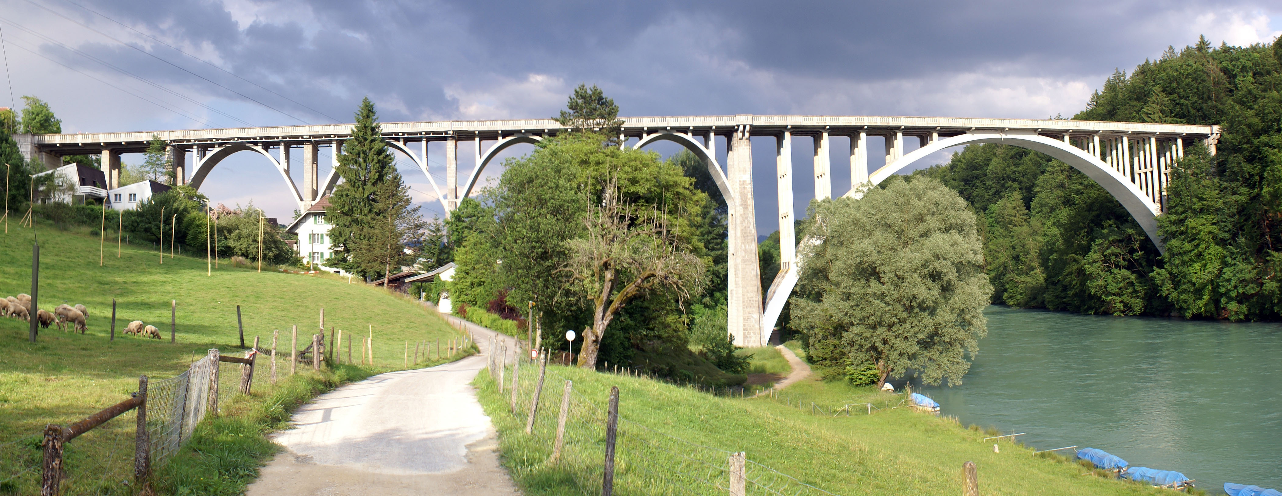 Halenbrücke, Berne, Switzerland. High level concrete bridge, only lightly reinforced, leading to Kirchlindach.